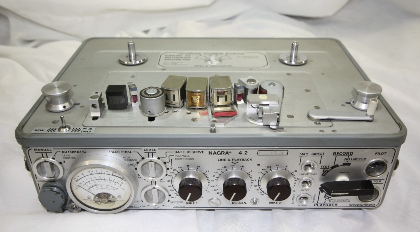 NAGRA 4.2 mono reel to reel field recorder